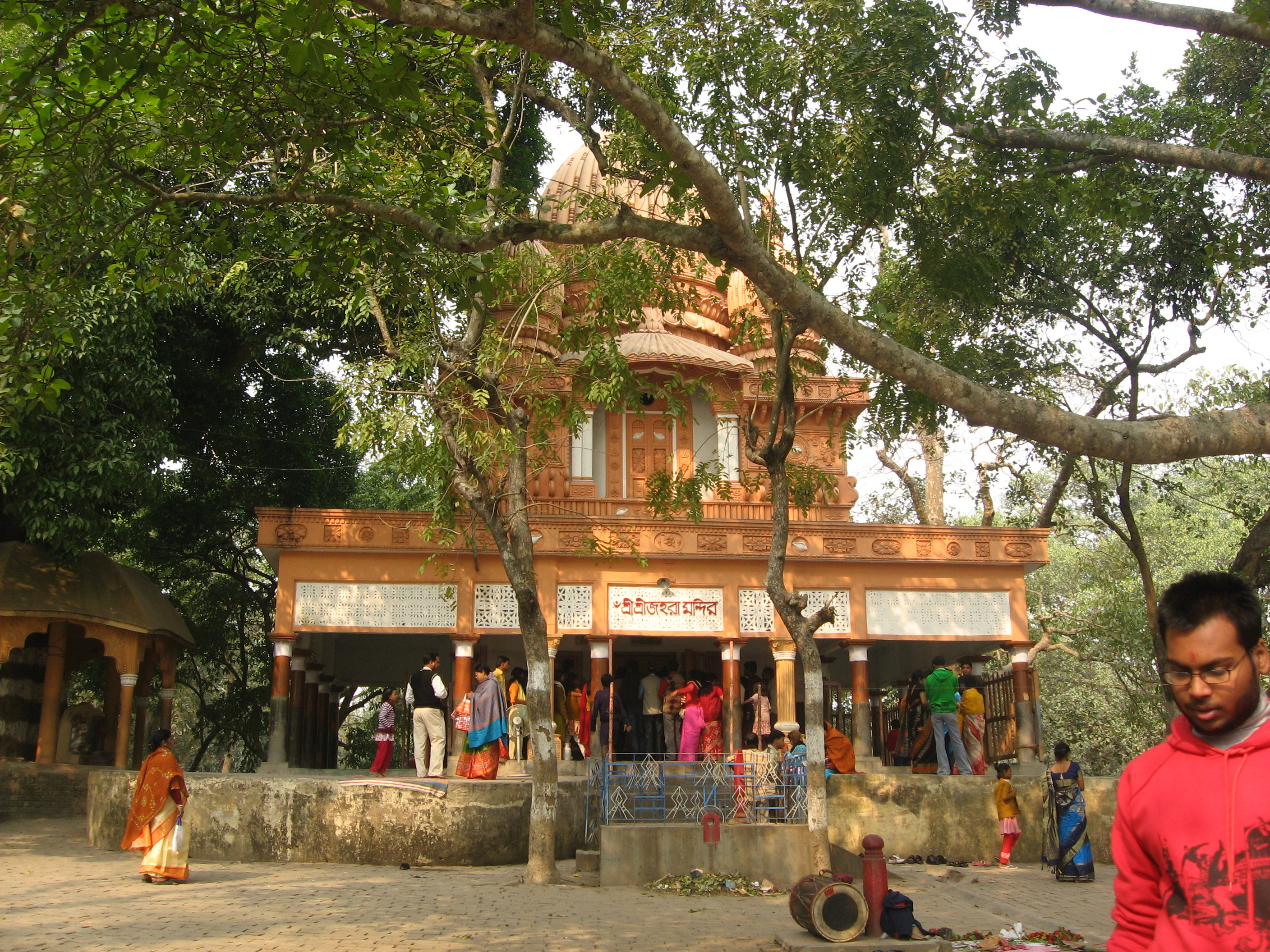 This is the temple of Johara Kali situated at outskirts of Malda Town (English Bazar)